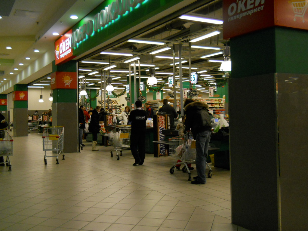 Moscow, Prospekt Mira 211, Golden Babylon Rostokino, O'Key supermarket.